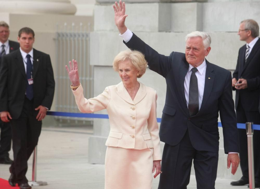 Lithuanian President Valdas Adamkus with wife Alma Adamkienė